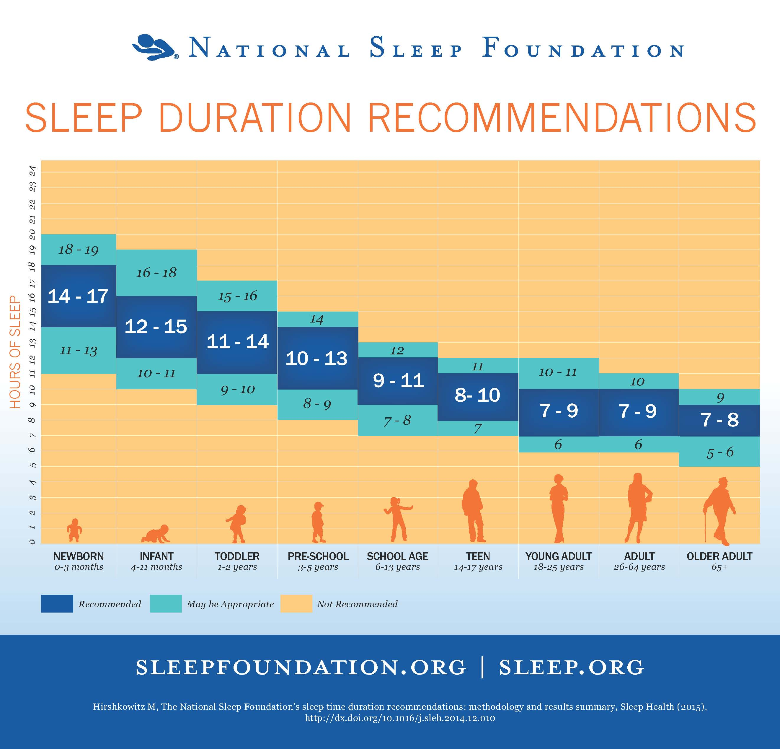 National Sleep Foundation's Sleep Duration Recommendations Chart. The chart has recommendations for sleep times by different age segments. The research paper was published in Sleep Health Journal in March 2015.